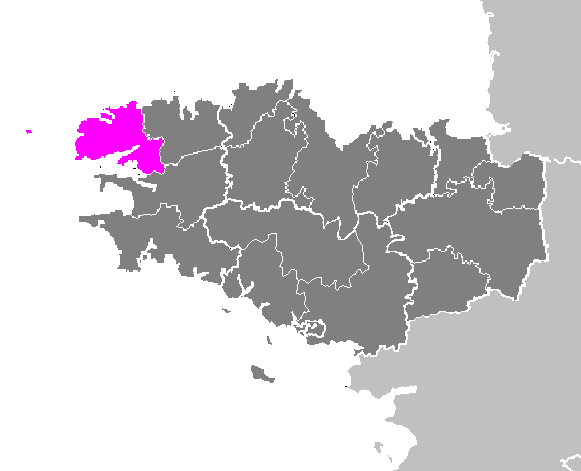 Maps of arrondissements and cantons of France: Arrondissement de Brest.PNG